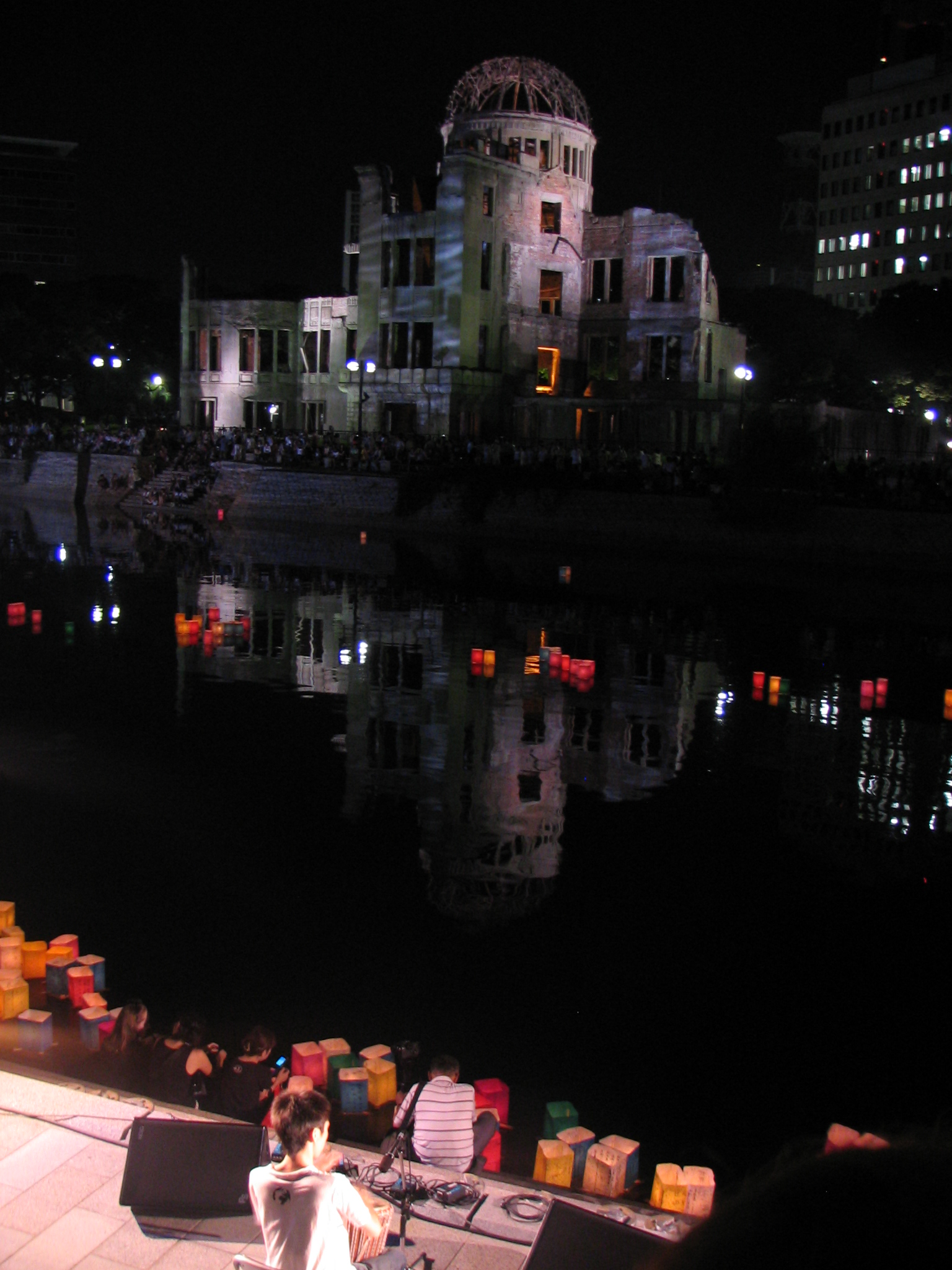 Tōrō nagashi float in the river in Hiroshima, as part of the Hiroshima Peace Memorial Ceremony. in the backgruond you can see the Hiroshima Peace Memorial.